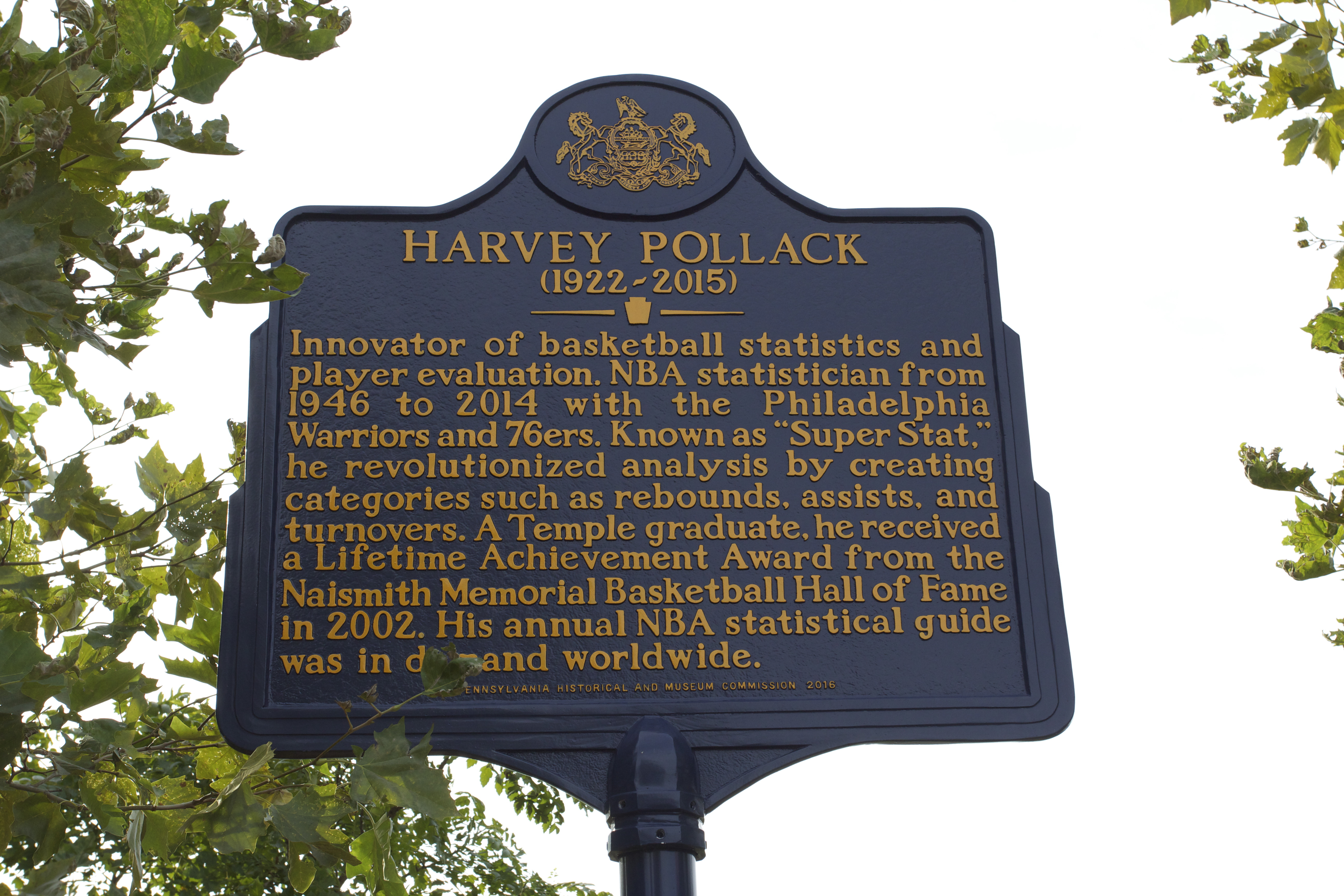 Sports statues in South Philadelphia